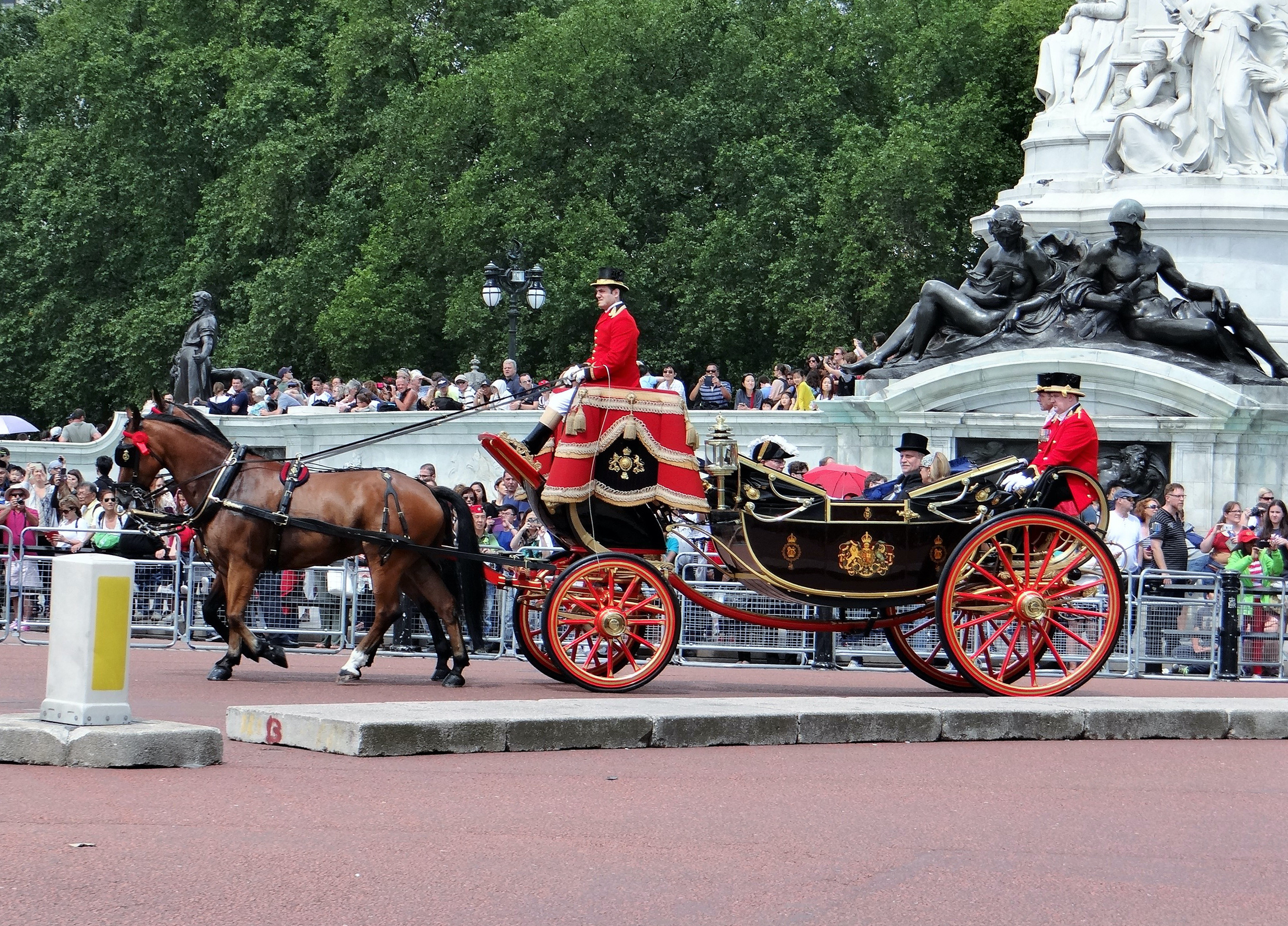 Horse and carriage of the Royal Mews at Buckingham Palace, near Buckingham Palace